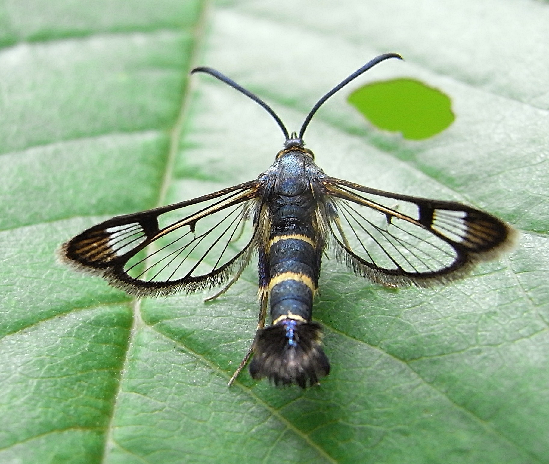 Synanthedon spuleri female from Hungary, Bück-mountains at 2010-06-20